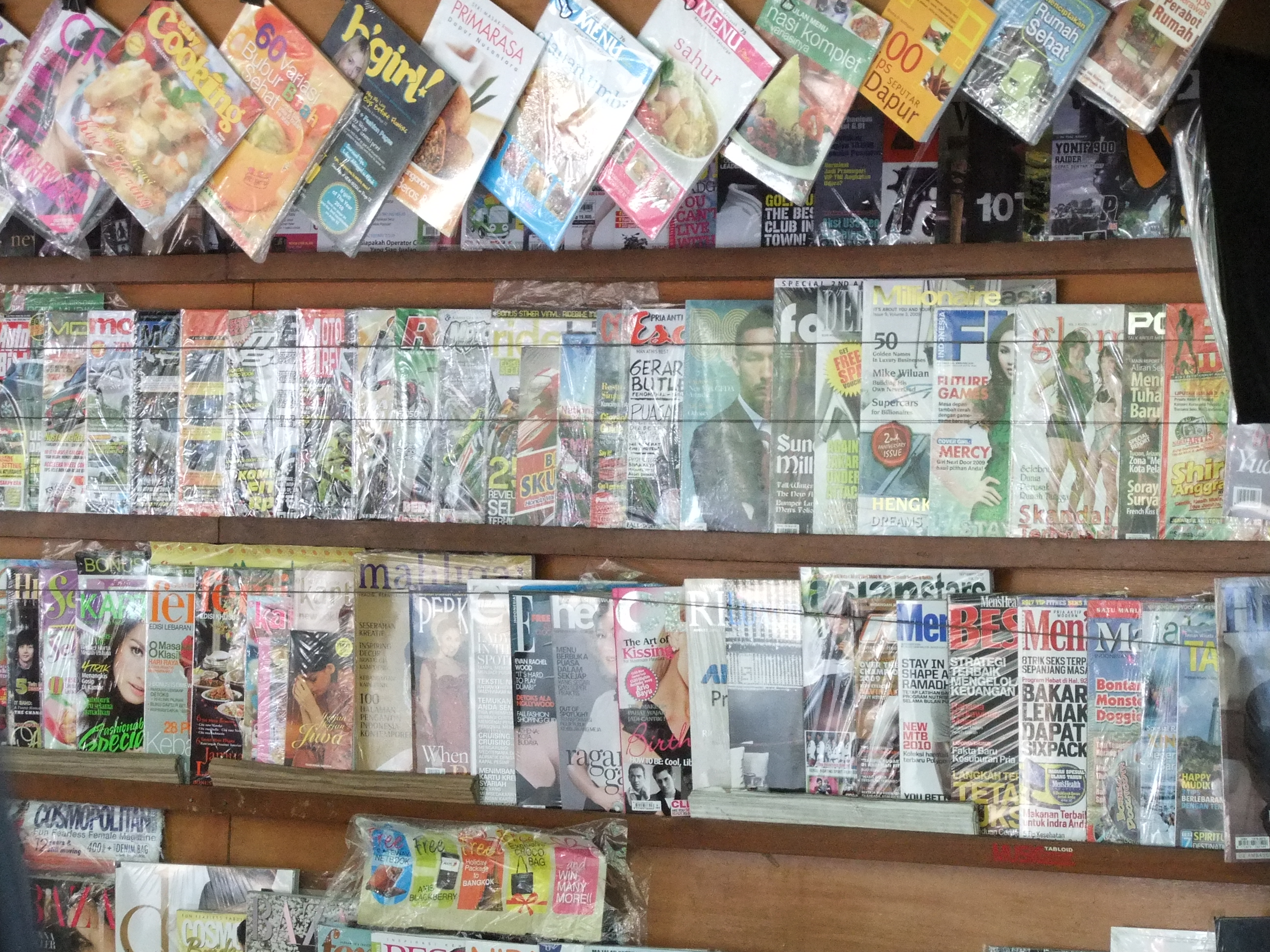 Indonesian magazines at a kiosk in Jakarta.